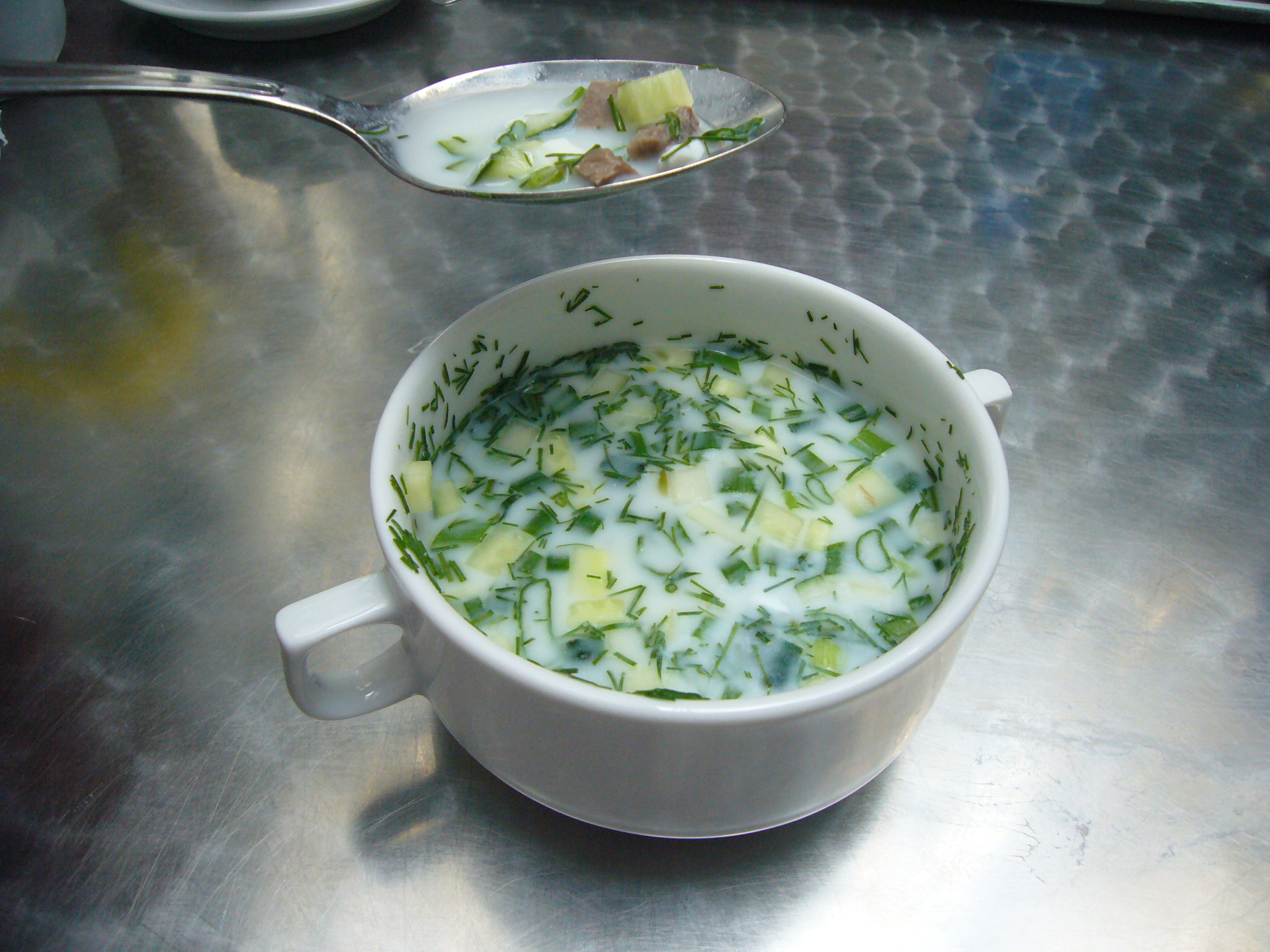 Okroshka cold soup, a favourite dish of Russian cuisine, made on the basis of the beverage kefir, Moscow, Russia